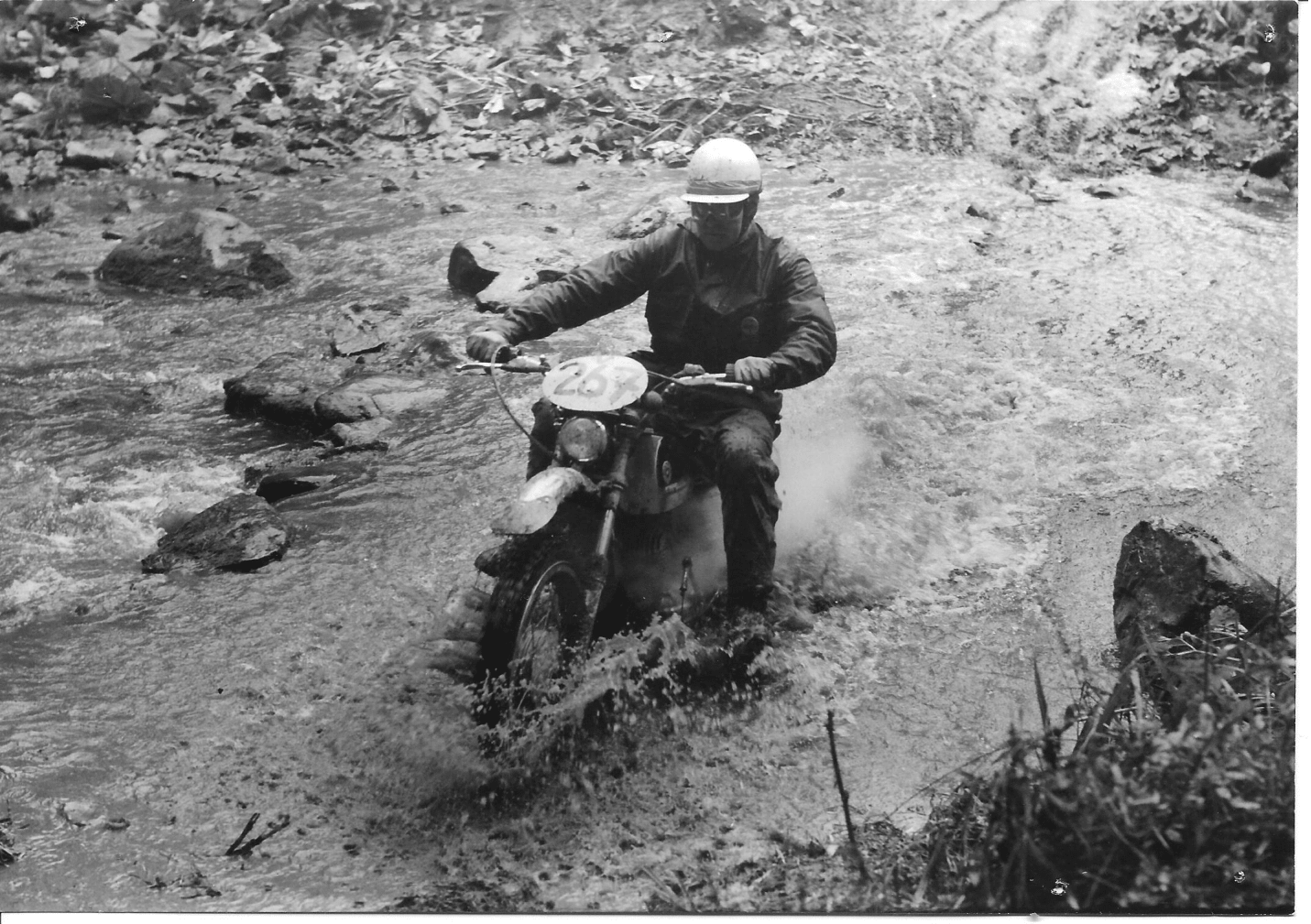 Oriol Puig Bultó on a Bultaco Matador at the 1969 ISDT, in Garmisch-Partenkirchen